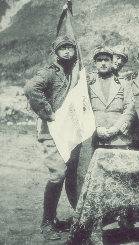 Second Lieutenant Dario Vitali, Standard Bearer of Ninth Assault Battalion "Black Flames", Arditi, Italian Army, 1918